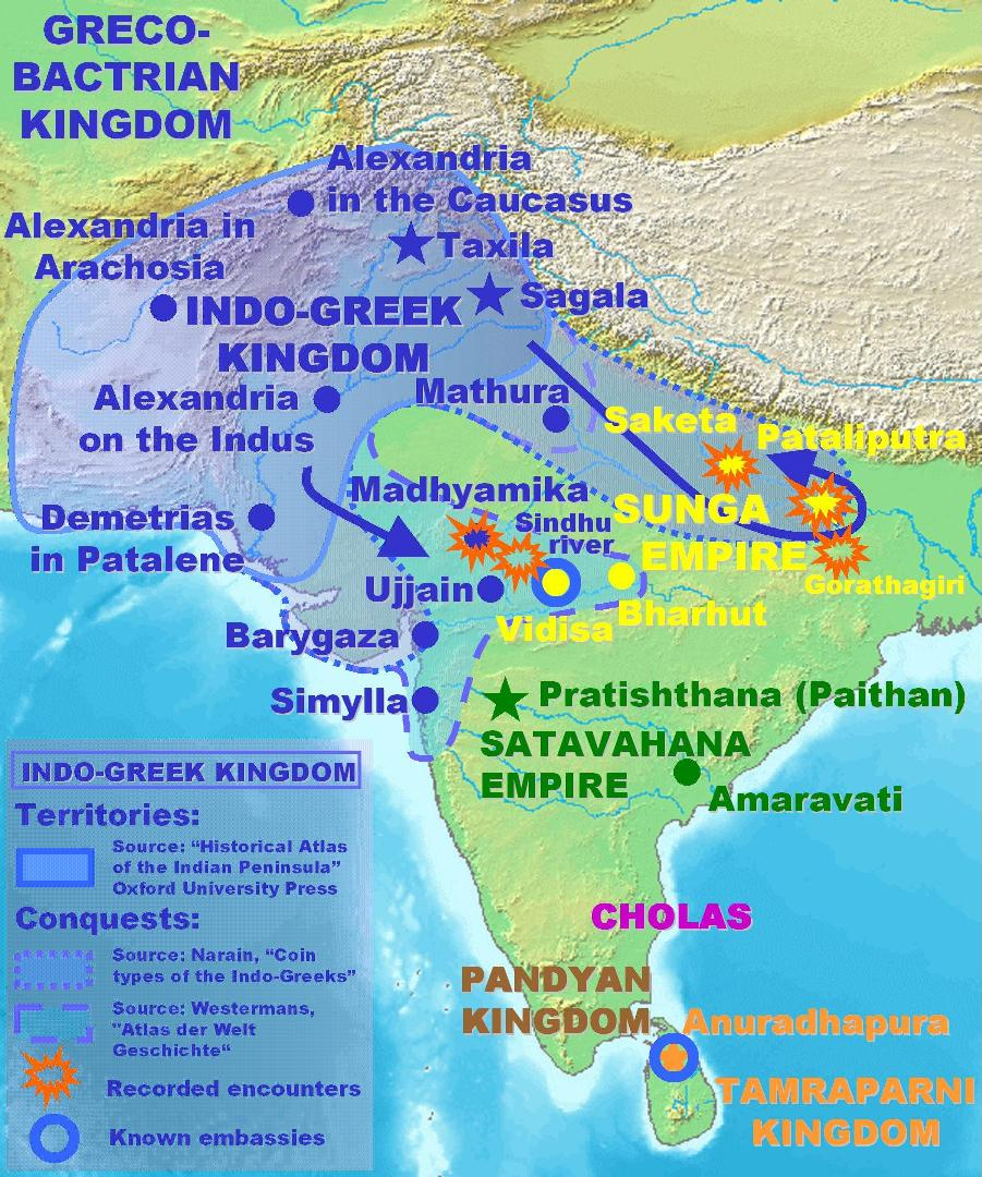 Campaigns of the Indo-Greeks